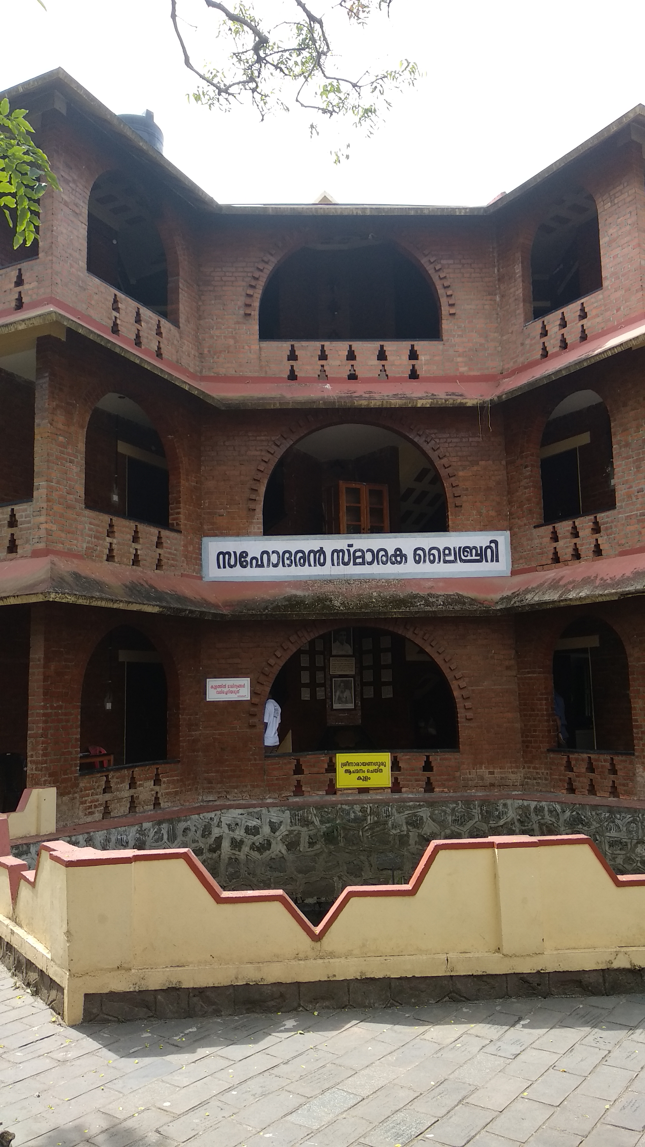 Sahodaran Ayyappan smarakam